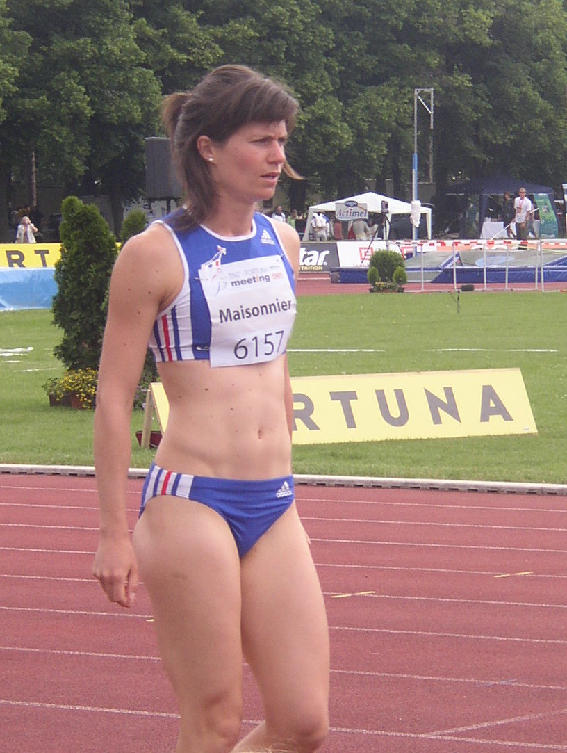 Athlete Blandine Maisonnier of France prepares for her attempt in long jump during women's heptathlon at 4th edition of the TNT - Fortuna Meeting (IAAF World Combined Events Challenge Meeting, Sletiště Stadium, Kladno, Czech Republic, 16 June 2010, 11:49).